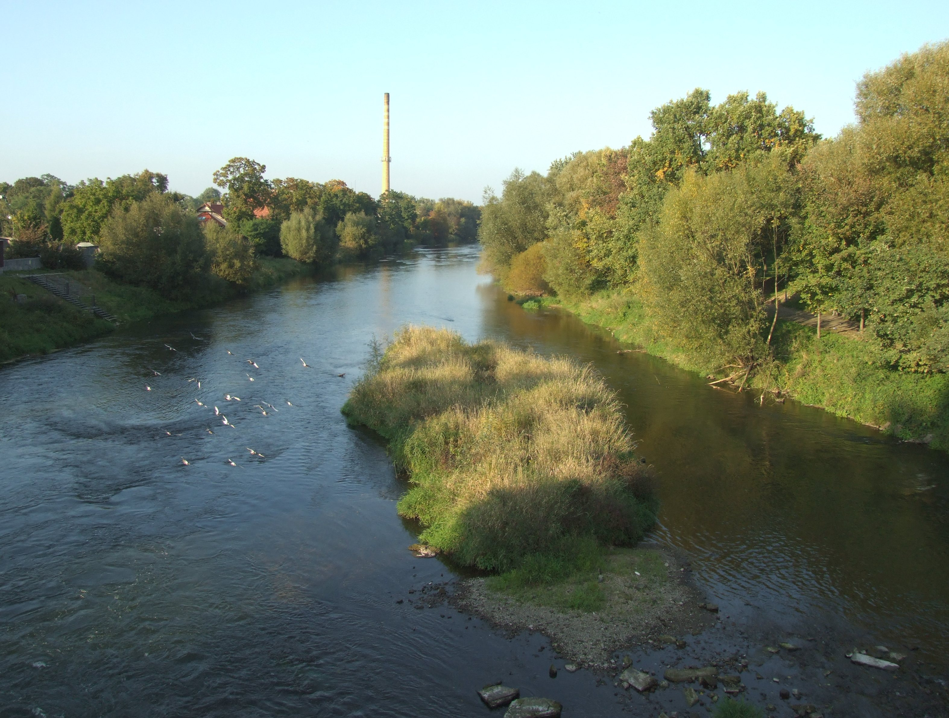 A view on the Bóbr River from a bridge in Żagań